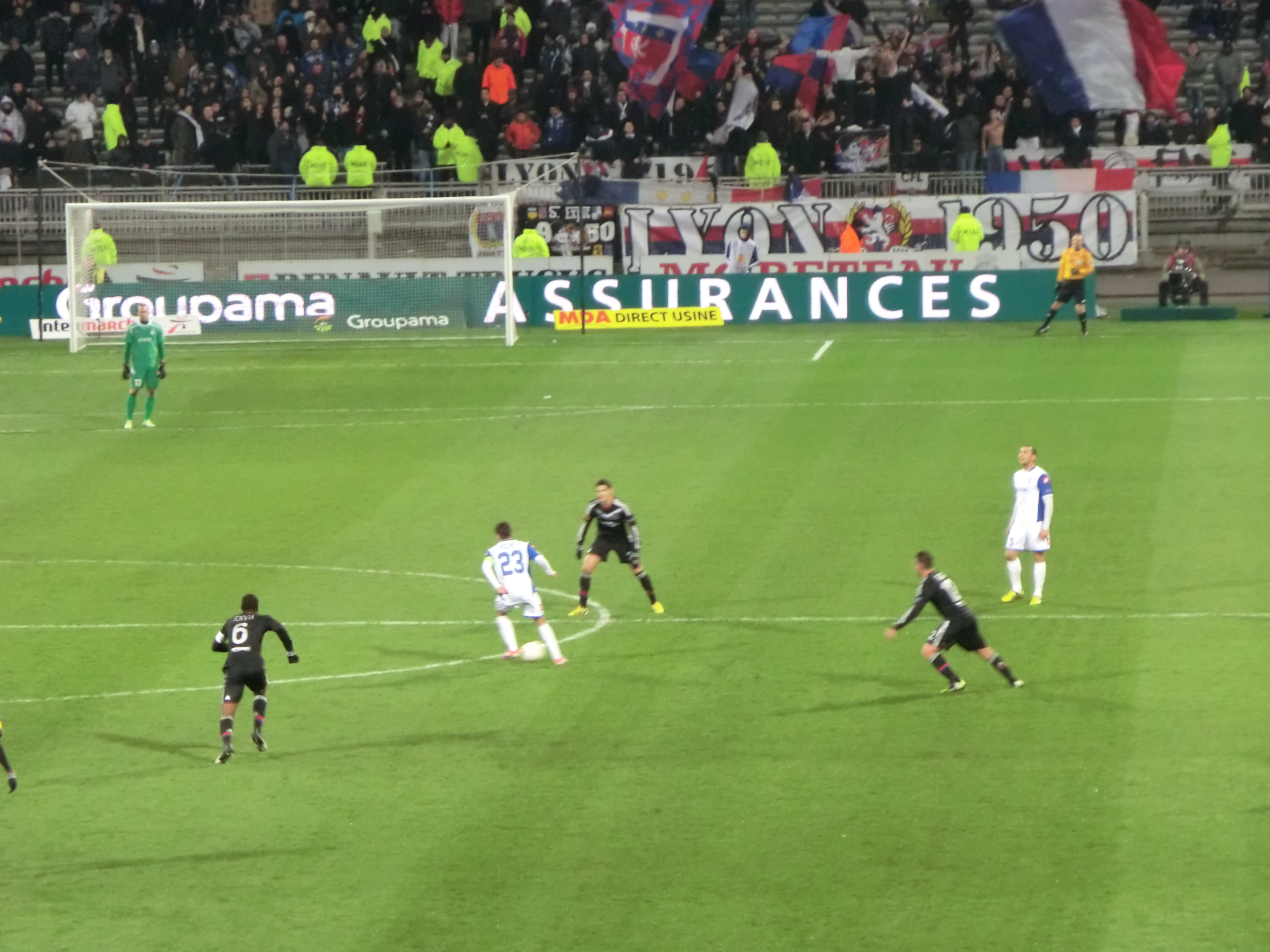 OL - Hapoël Ironi Kiryat Shmona (UEFA Europa League, 2012).